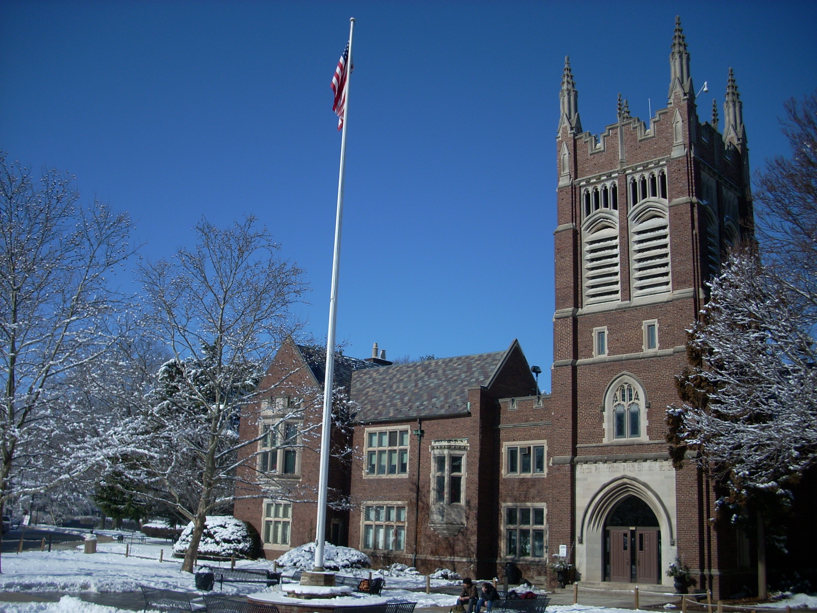 This is the Front of Princeton High school, on a freshly powdered morning.